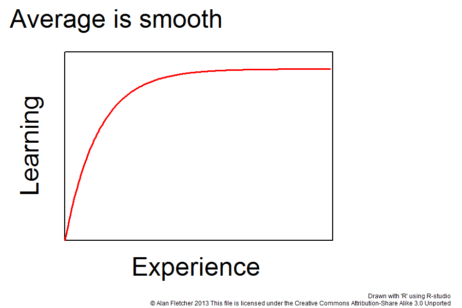 Learning Curve : Average is smooth